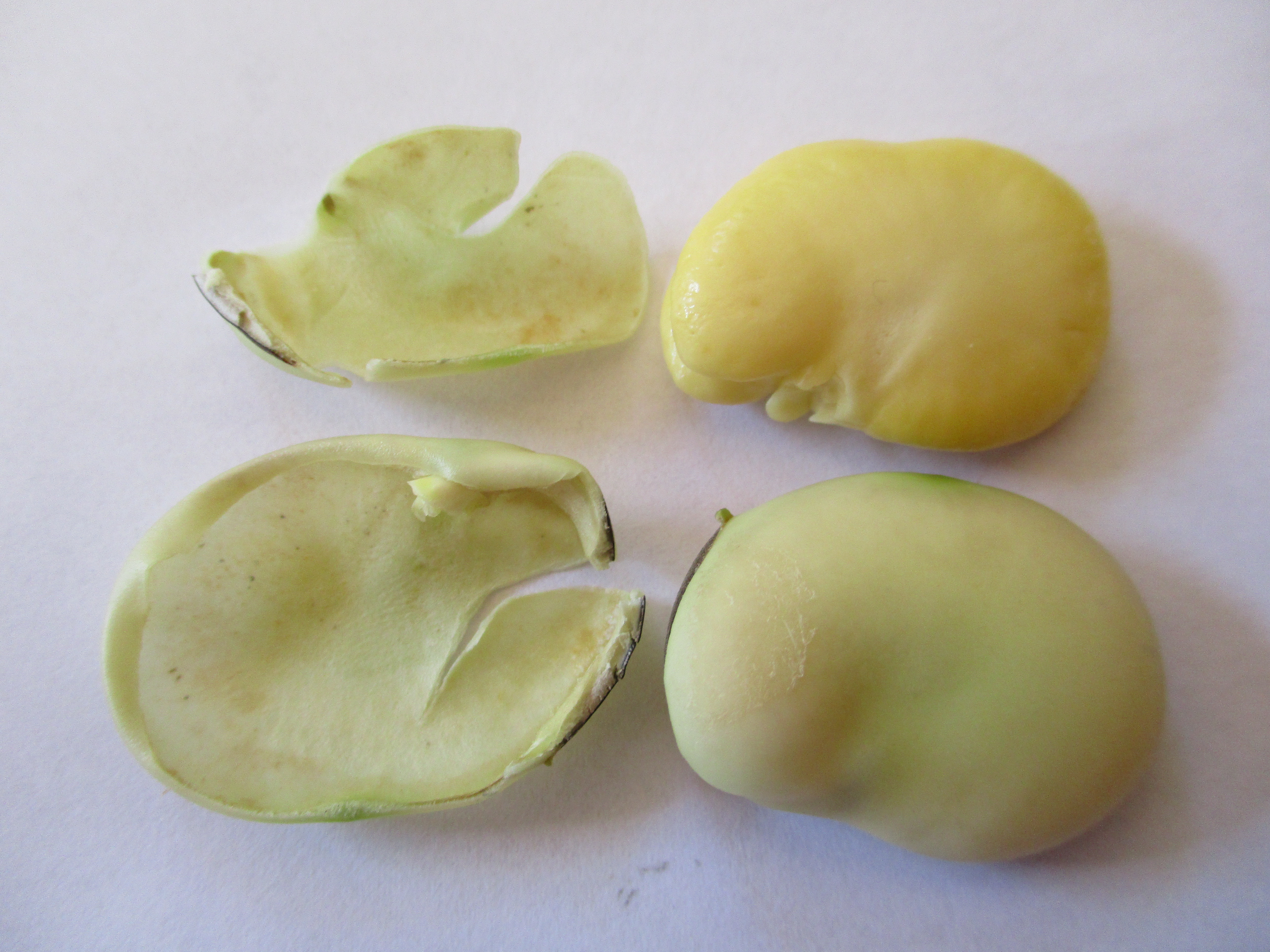 Outer seed coating (left), naked seed (upper right), intact seed (bottom right)